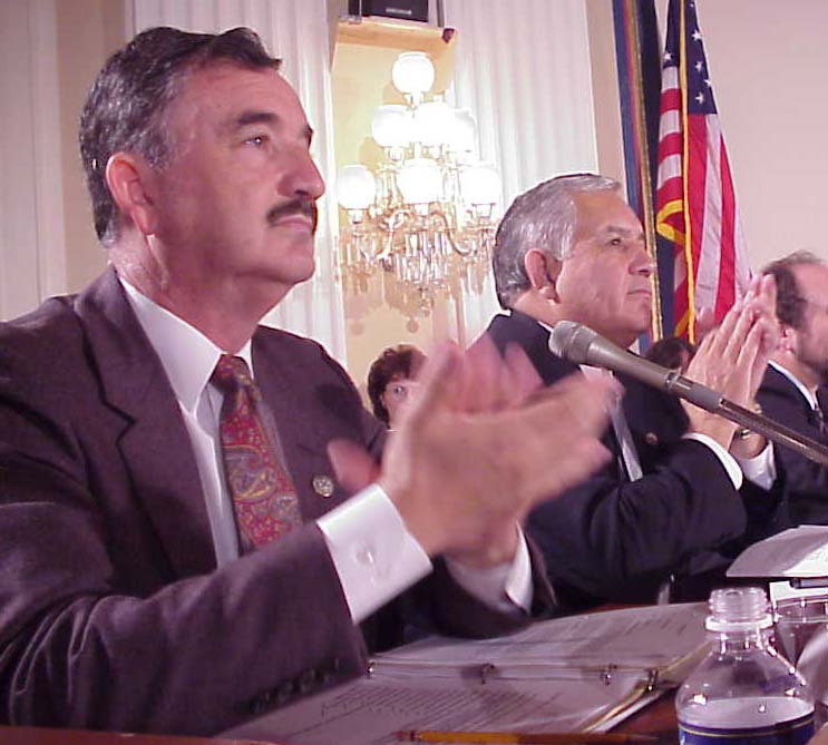 Ciro D. Rodriguez, on the left & Silvestre Reyes on the right